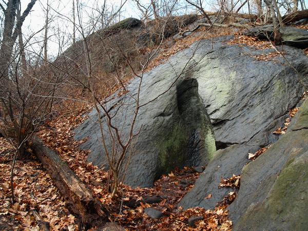 Photo by Nathaniel Paluga